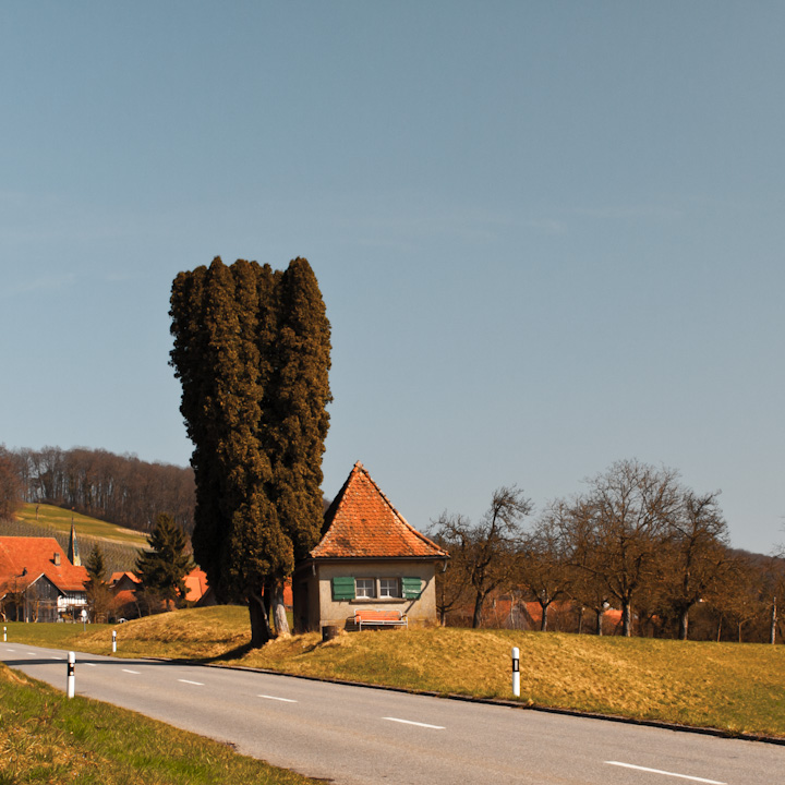 Village in Niederneunforn, Neunforn, Canton of Thurgau, Switzerland